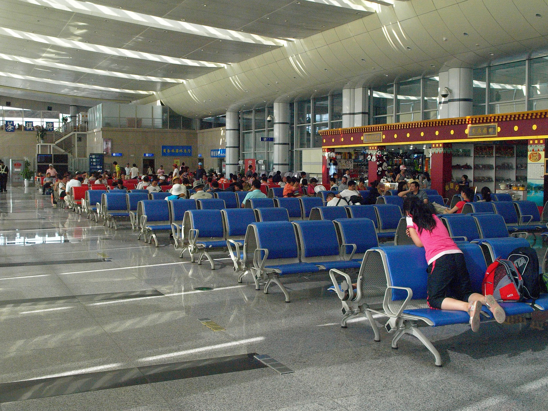 Sichuan Jiuzhaihuanglong Airport(Departure area)